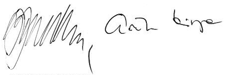 Lison Treaty - Final Act Signature by Hungarian representatives